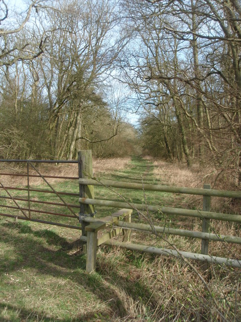 A Ride through Aversley Wood Seen from the Bullock Road, early spring in Aversley Wood.